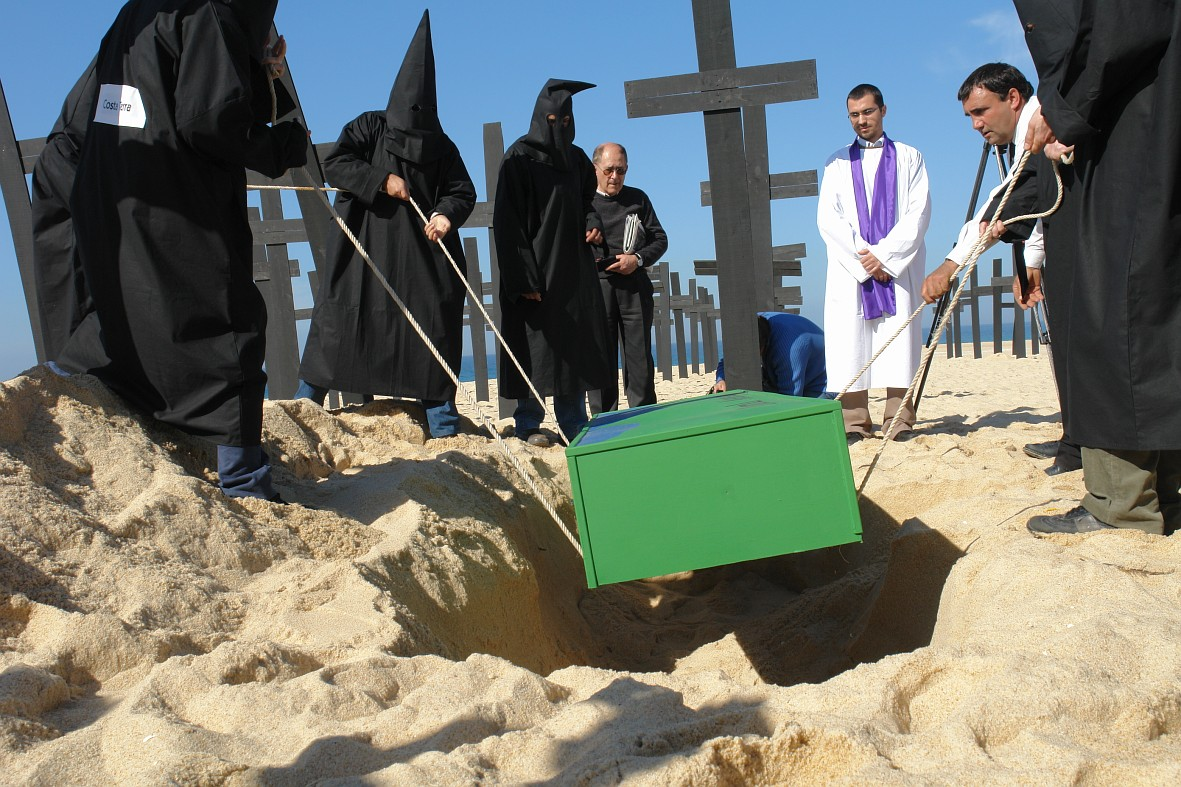 Quercus protest against the destruction of natural spaces in the coast in Alentejo, to build touristic accommodations.